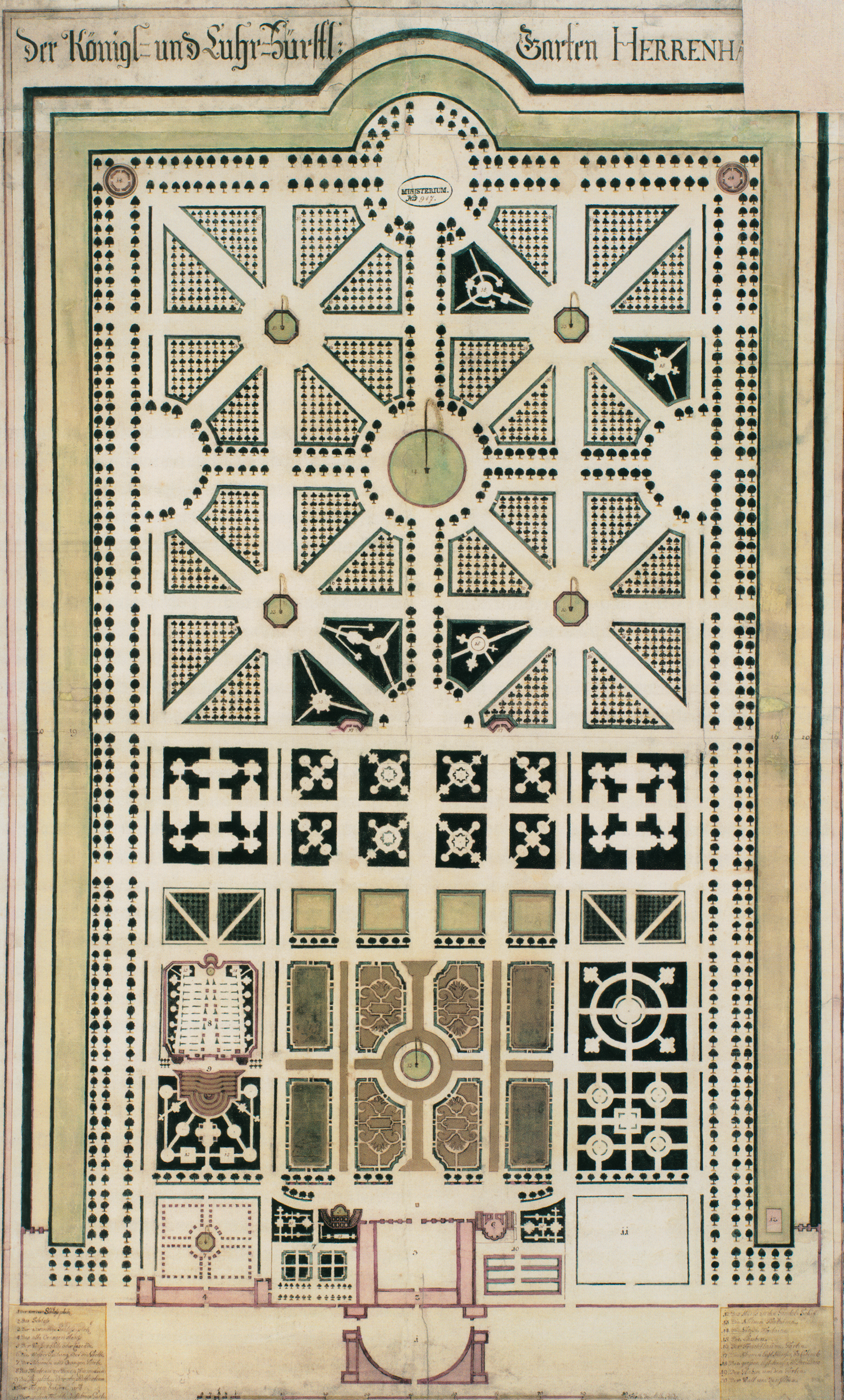 Map of the royal garden Herrenhausen near Hanover (aka Großer Garten ‛Great Garden’), the north side (with the palace in centre and the gallery leftside) below, by Pierre Nicolas Landersheimer, circa 1725.